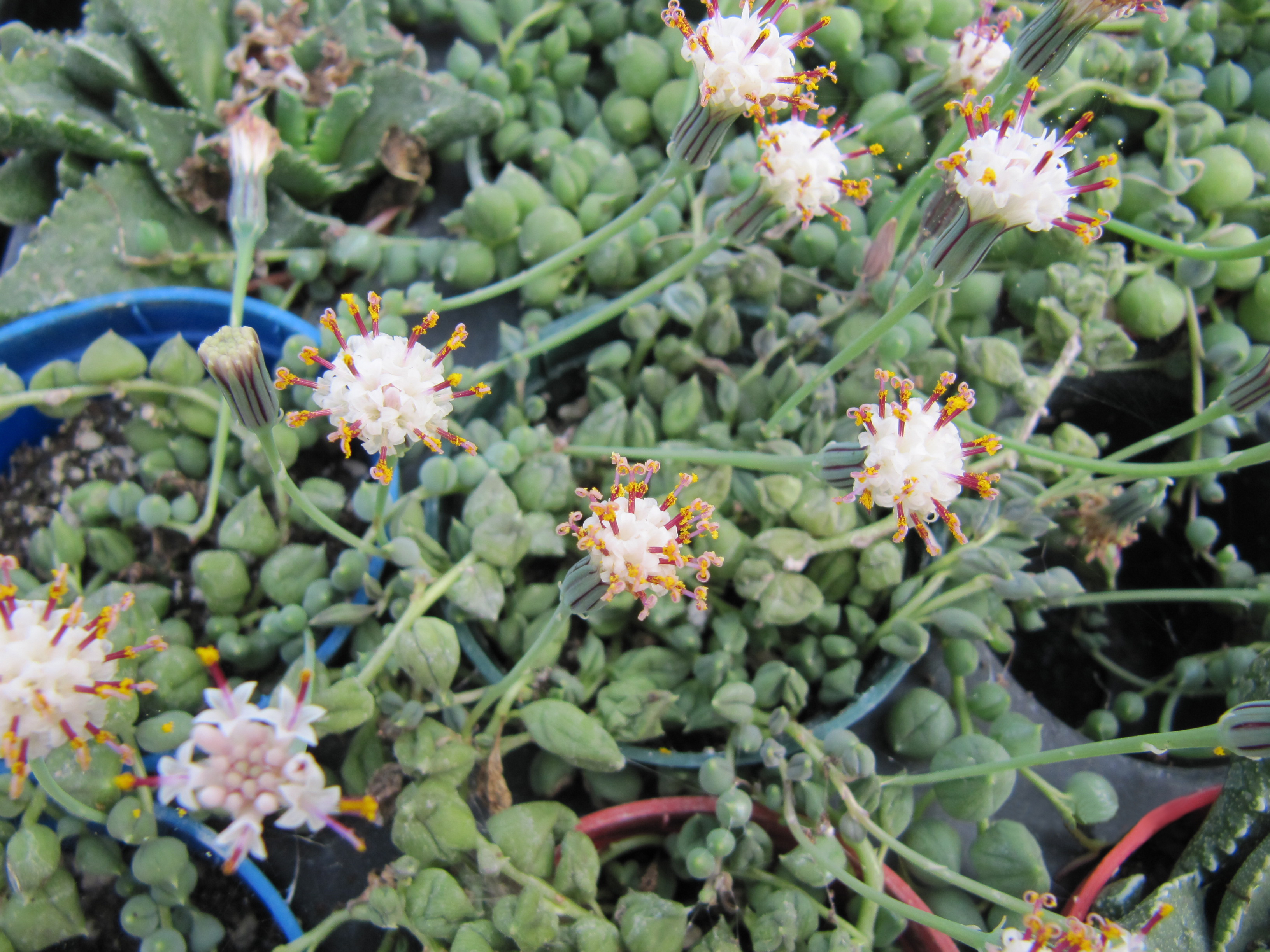 Senecio rowleyanus, commonly called String-of-Pearls or String-of-Beads, is a flowering plant in the family Asteraceae. It is native to southwest Africa. S. rowleyanus grows long, trailing stems of spherical leaves. The flowers are pale and brushlike. It is cultivated indoors as an ornamental plant for hanging baskets. The fleshy leaves are poisonous and should not be consumed.